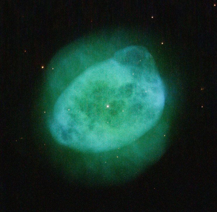 This one looks like a piece of jade to me with these colors. The colors are, of course, representative or "false" color, depending on how you want to word that. As an example, here is another rendition of this nebula using almost the same data. For this, the bluer patches indicate slightly stronger OIII emissions while the greener ones are slightly stronger in H-alpha. There are tiny little red things to the left and right of the nebula glowing in NII which look something like slightly smudged stars. I presume they are tiny FLIERS. Red: hst_11956_04_wfpc2_f658n_wf_sci Green: hst_11956_04_wfpc2_f656n_wf_sci Blue: hst_11956_04_wfpc2_f502n_wf_sci North is NOT up. It's 33.3° clockwise from up.